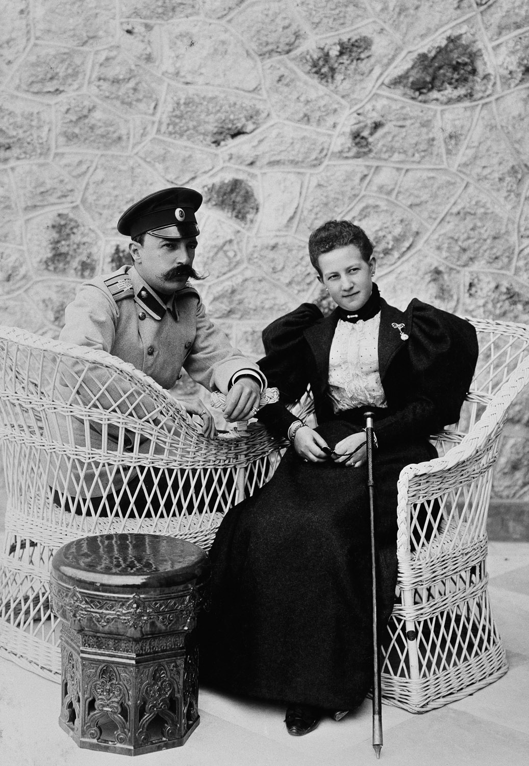 Grand Duke George Mikhailovich of Russia and Princes Marie of Greece, his future wife